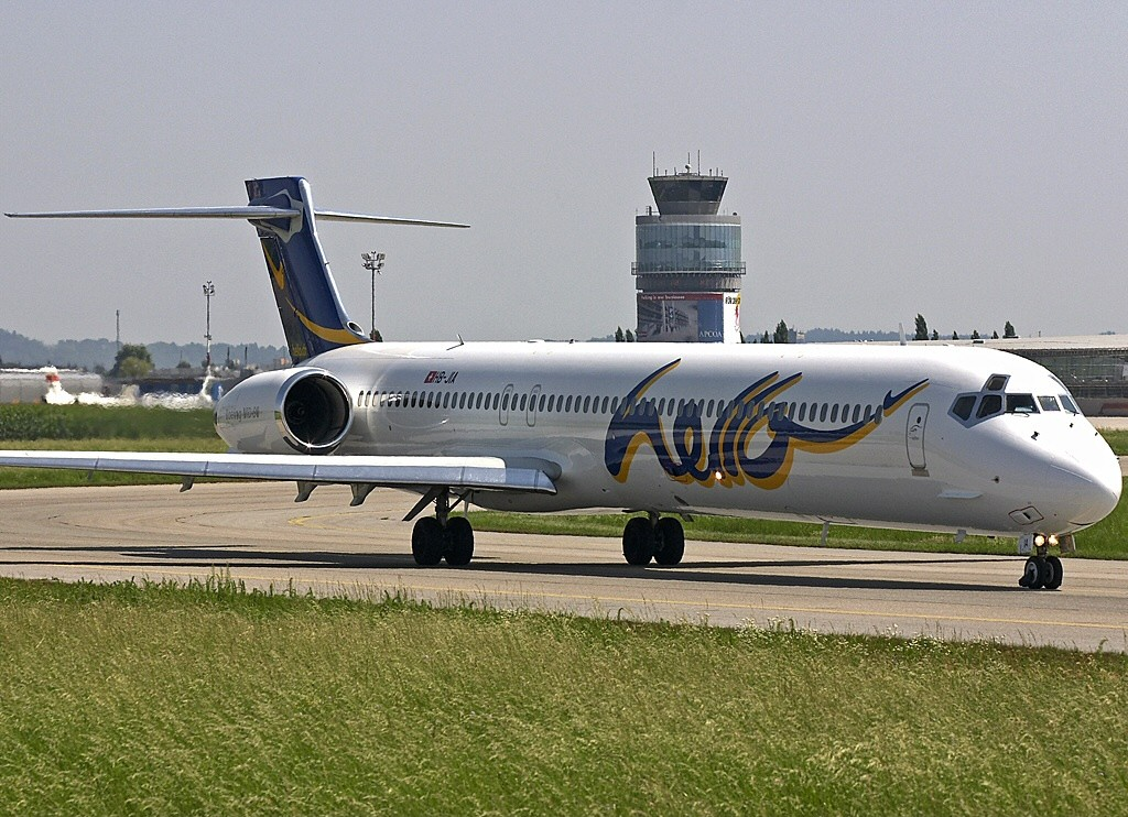 Hello Airlines MD-90 at Graz Airport